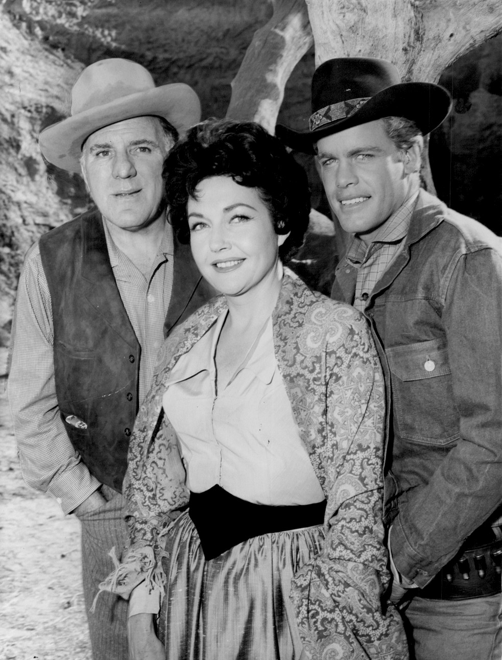 Photo of William Bendix, guest star Lynn Bari and Doug McClure from the short-lived television program Overland Trail. Bendix played Fred Kelly and McClure played Frank Flippen.